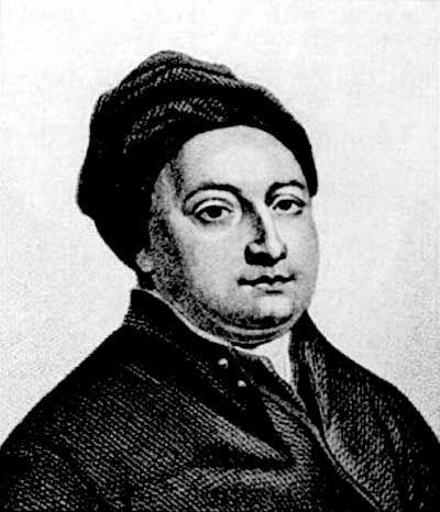 William Cheselden, English physician, surgeon and anatomist. Public domain.